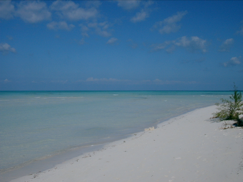 Cayo Levisa, Cuba nowember 2004. Photo by User:Friman